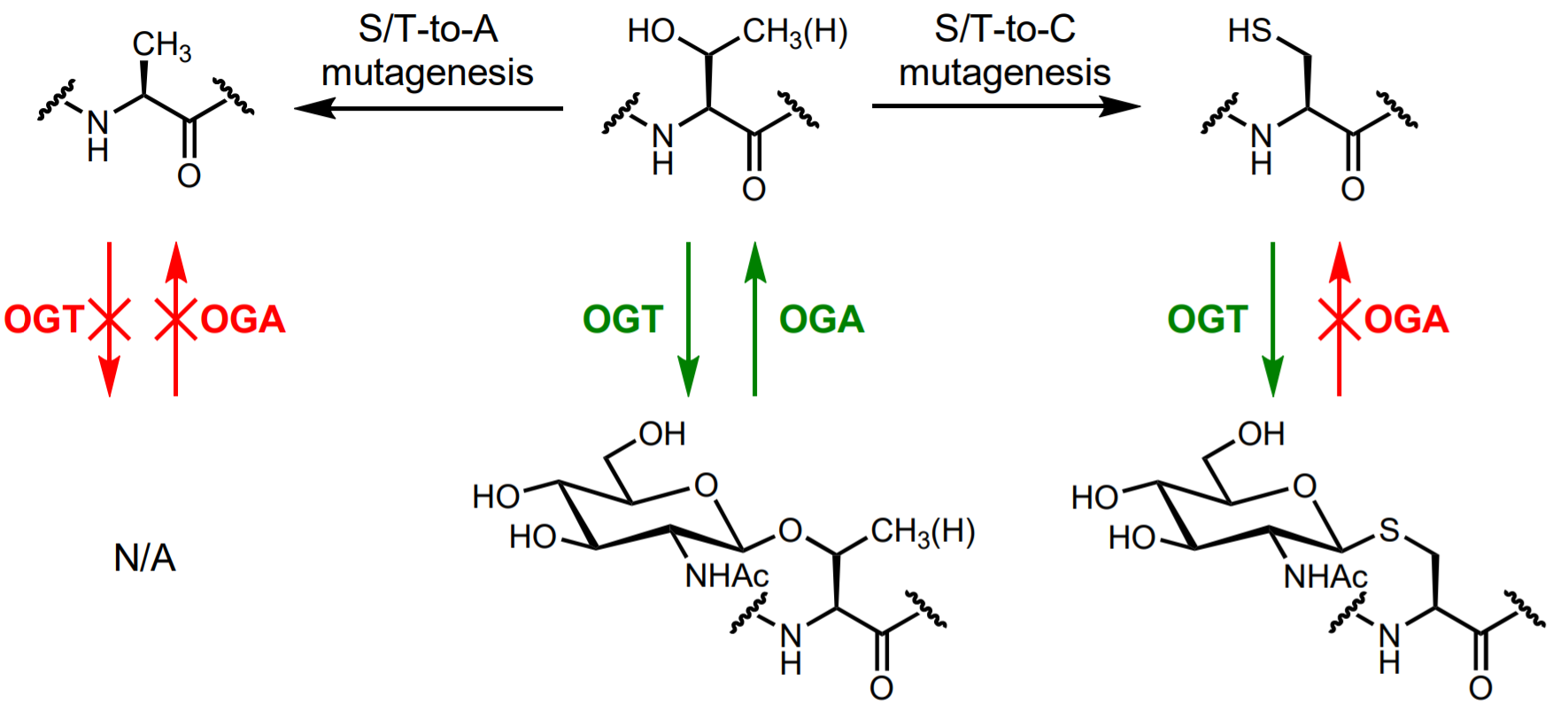 Figure depicting site mutagenesis for manipulating O-GlcNAc